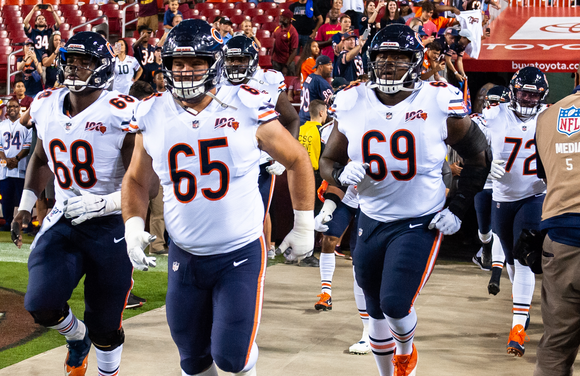 In 2019